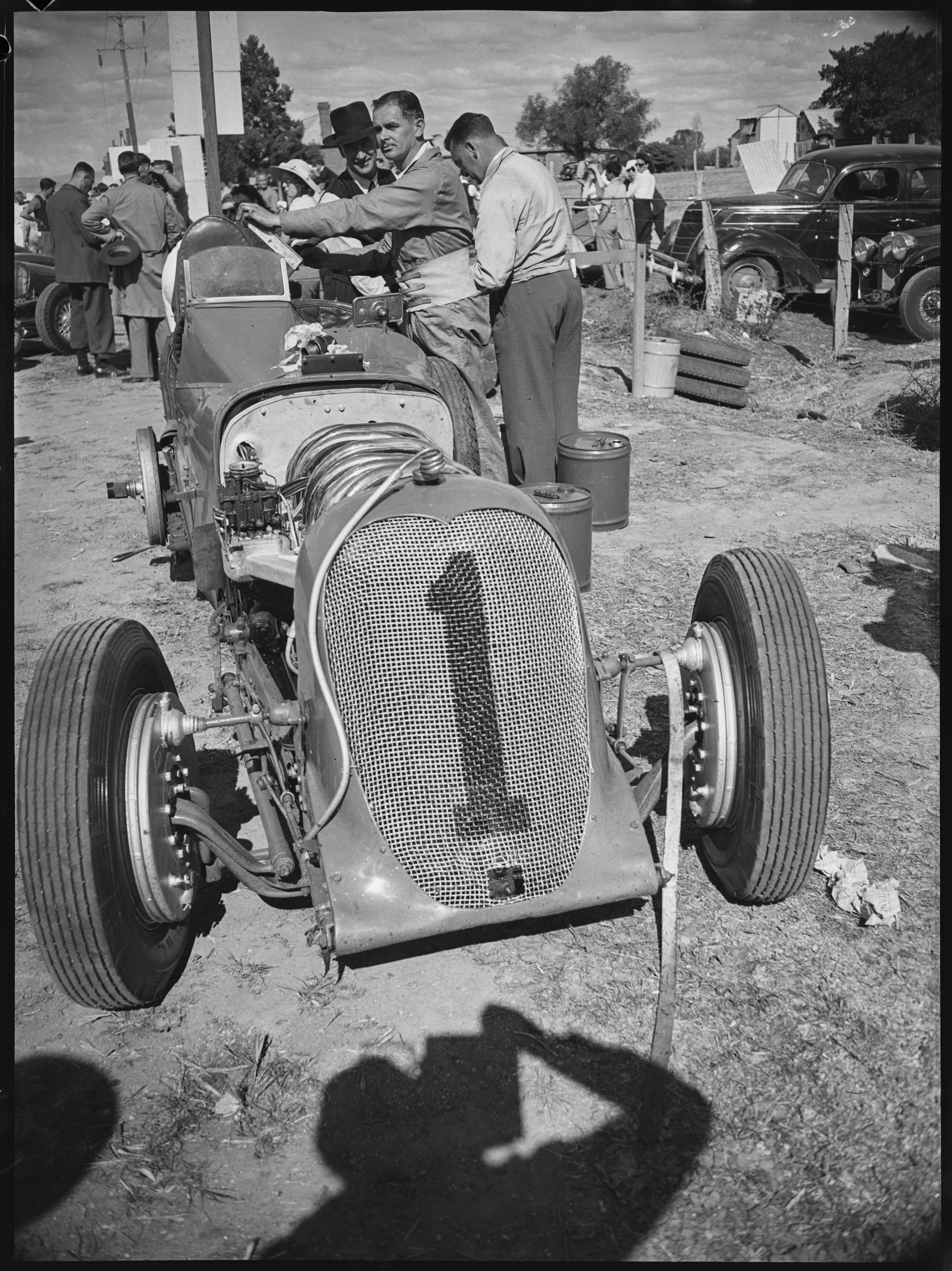 Working on Frank Kleinig's Hudson Eight Special, 1946 New South Wales Grand Prix, Bathurst, October 1946, State Library of New South Wales ON 388/Box 011/Item 072 The car utilised an MG Magna chassis and a Hudson Eight engine.